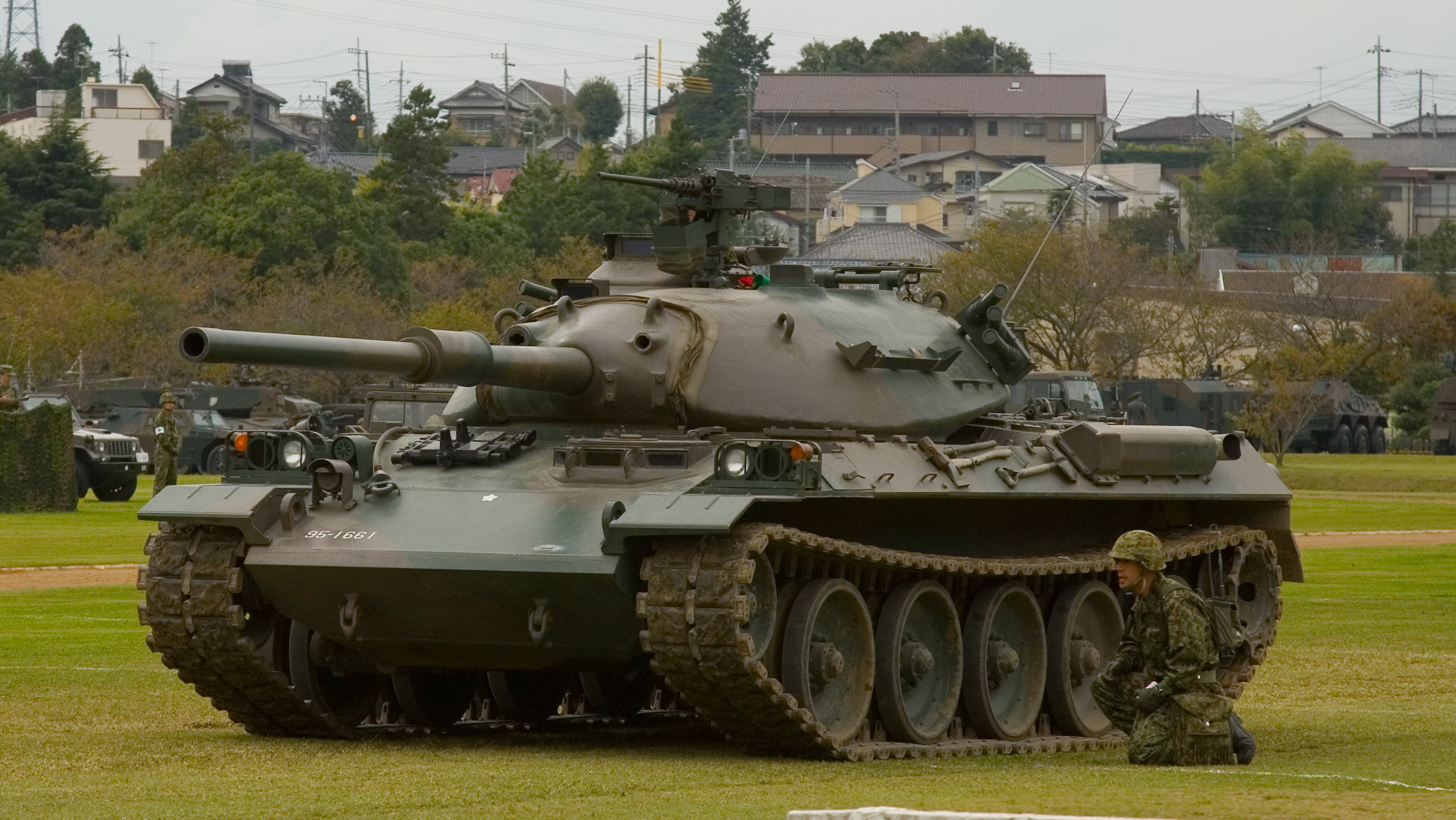 A Type 74 tank on display at the JGSDF Ordnance School in Tsuchiura, Kanto, Japan.